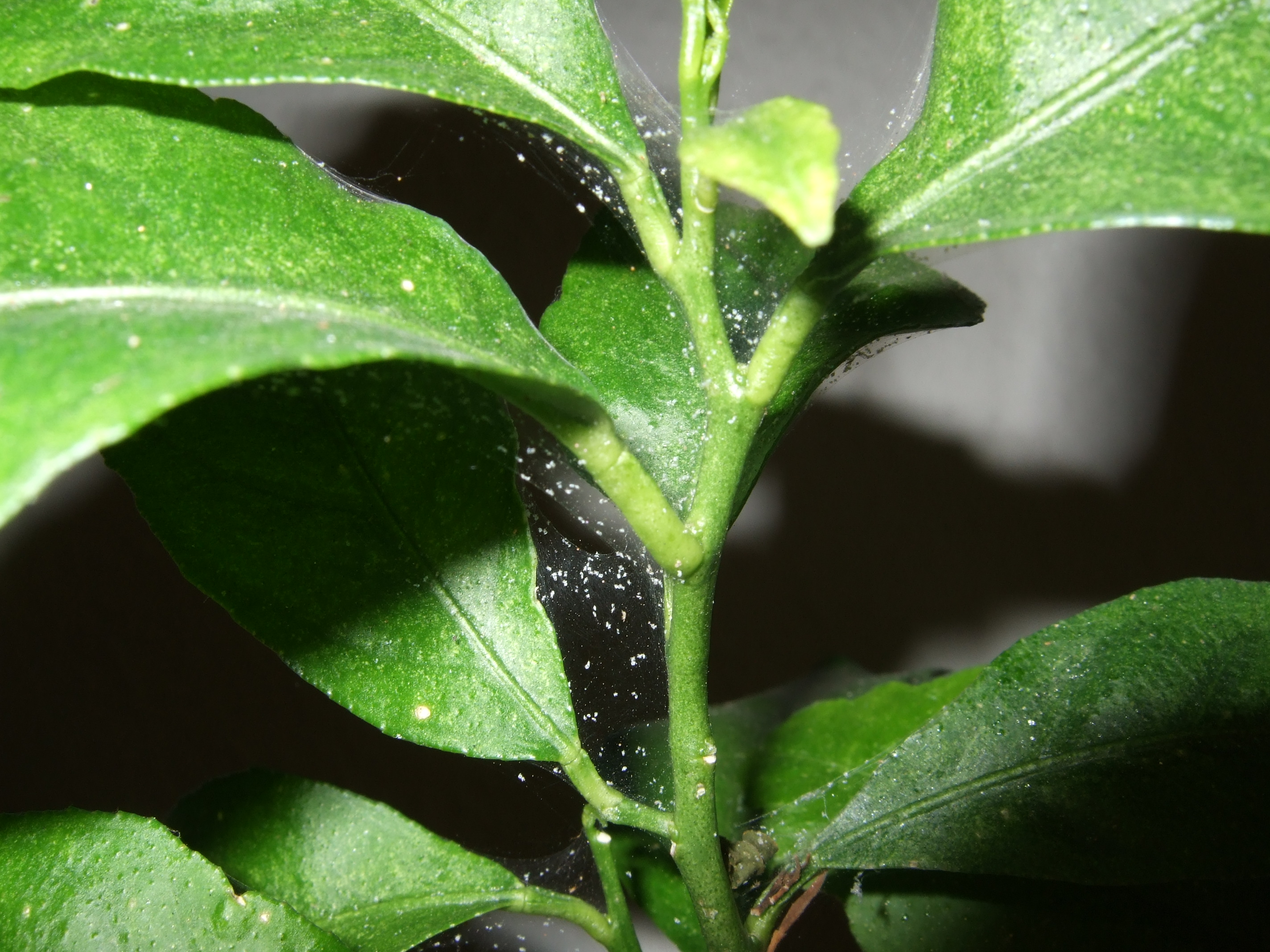 Strong spider mite infestation on a young lemon plant.